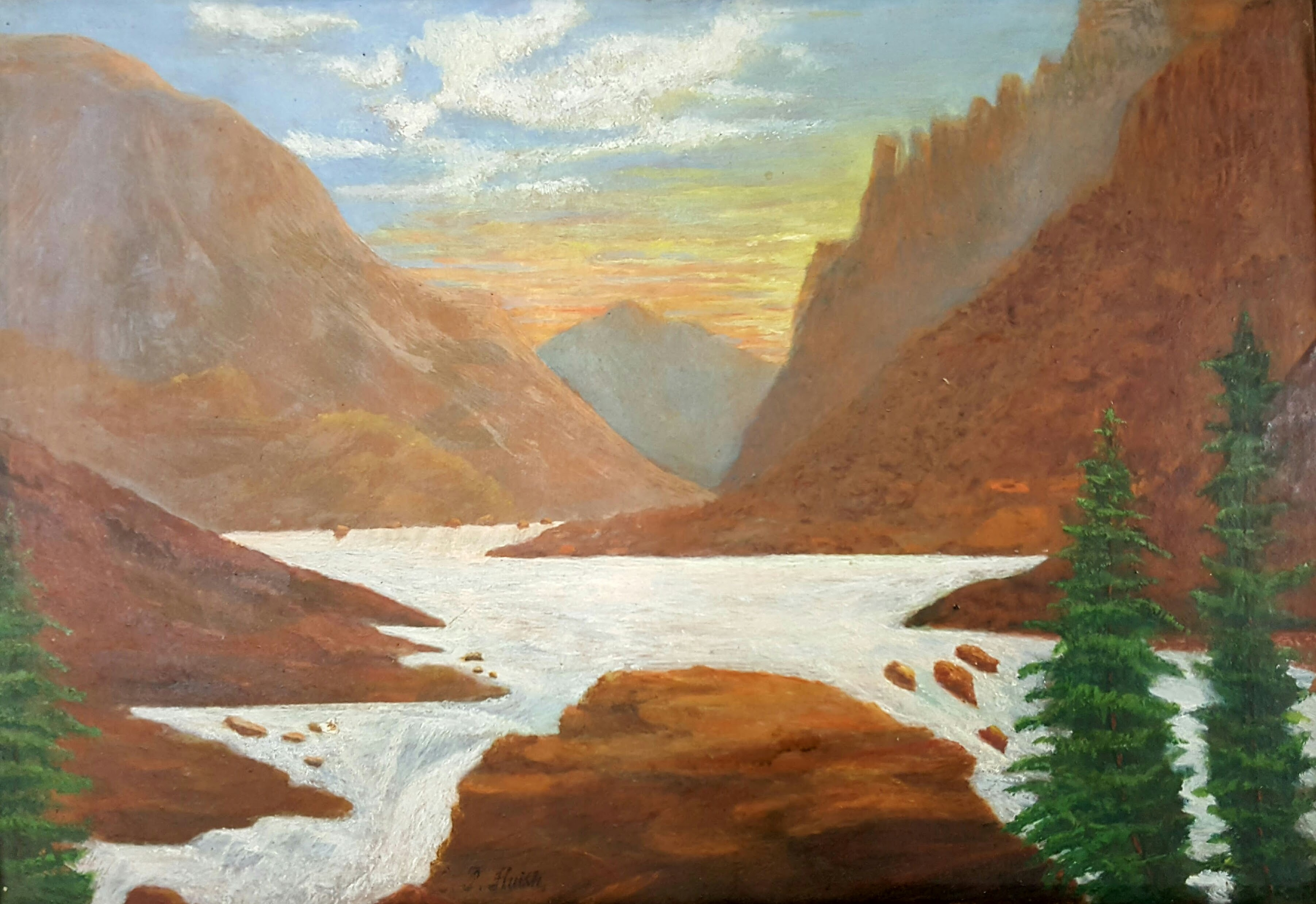 An early 20th century painting by Orson Pratt Huish